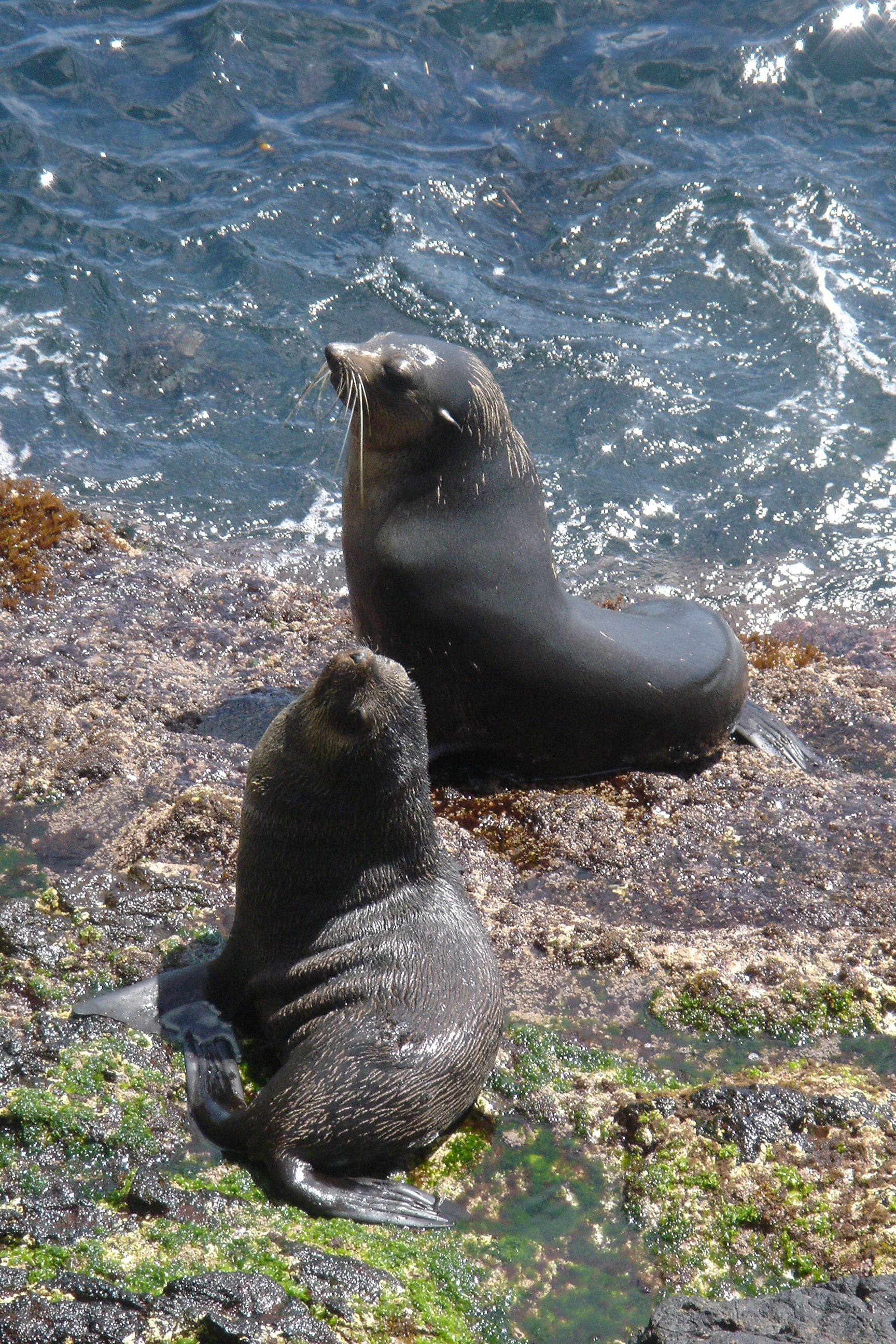 Gough and Inaccessible Islands (United Kingdom of Great Britain and Northern Ireland)